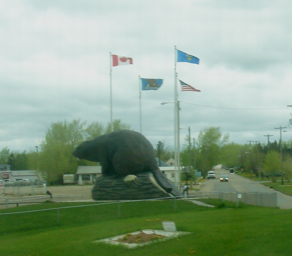 Beaver statue in Beaverlodge, Alberta, Canada